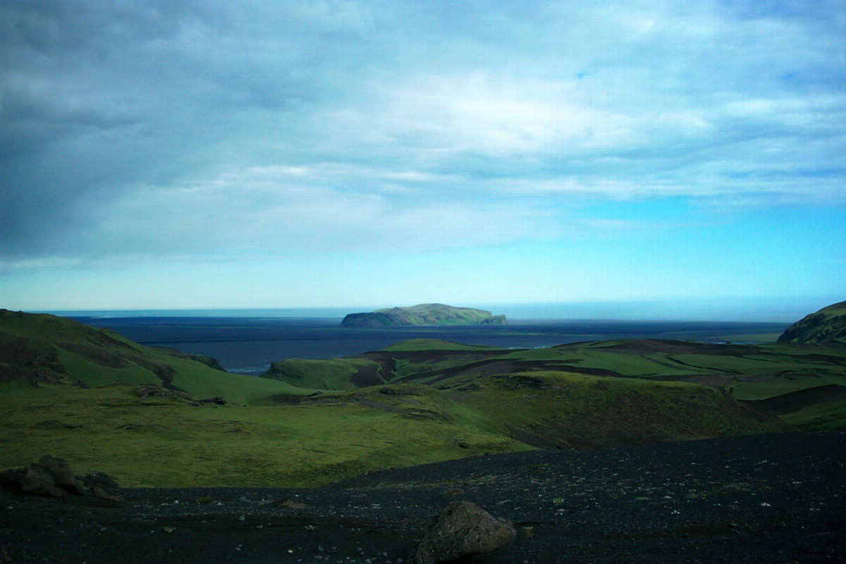 Island in the Sand